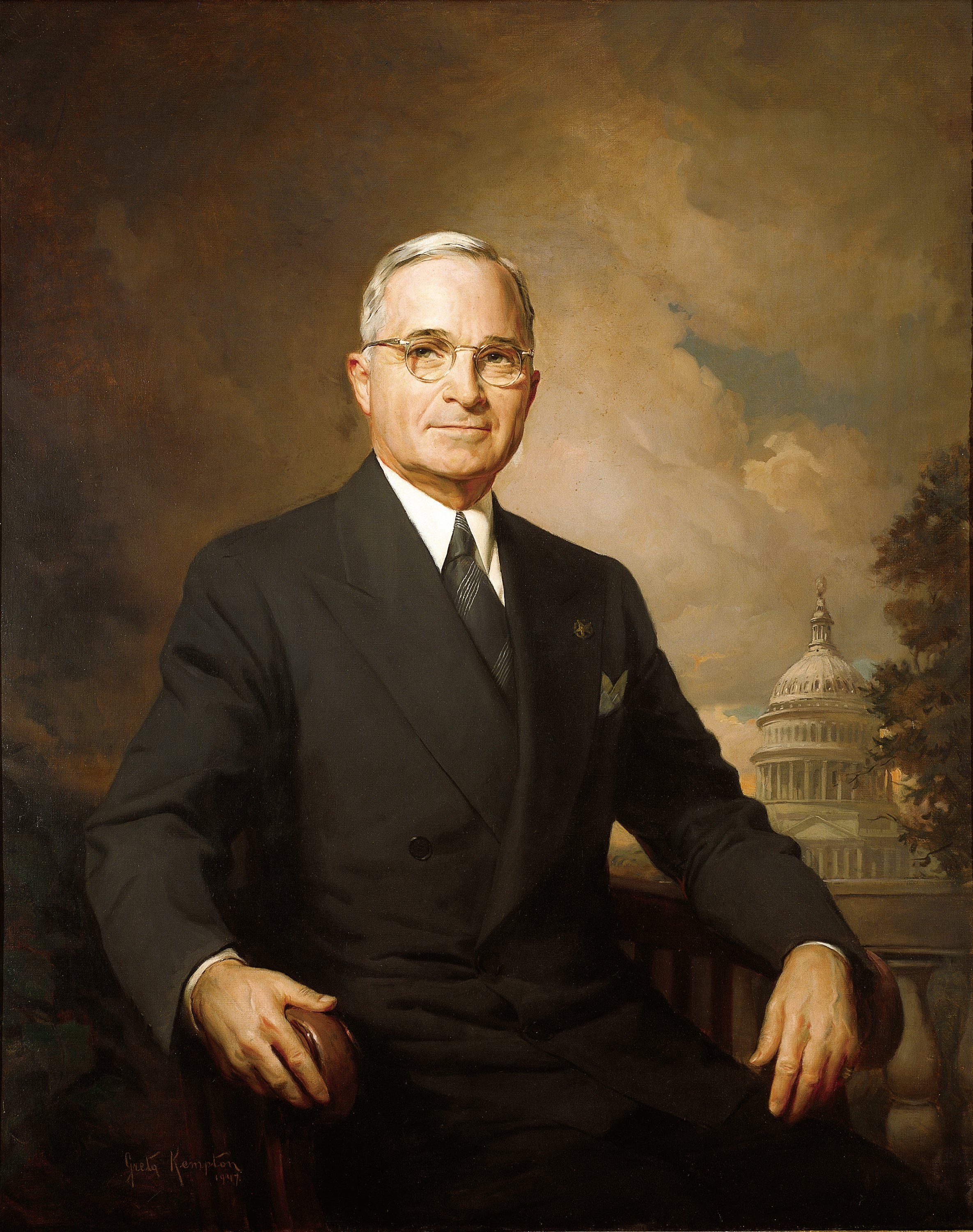 Official Presidential Portrait. Notice the Capitol Building in the background. Truman, who was a two-term senator from Missouri and as vice-president presided over the Senate, wanted to emphasize his legislative career rather than his executive and the constitutional emphasis of the former over the latter.